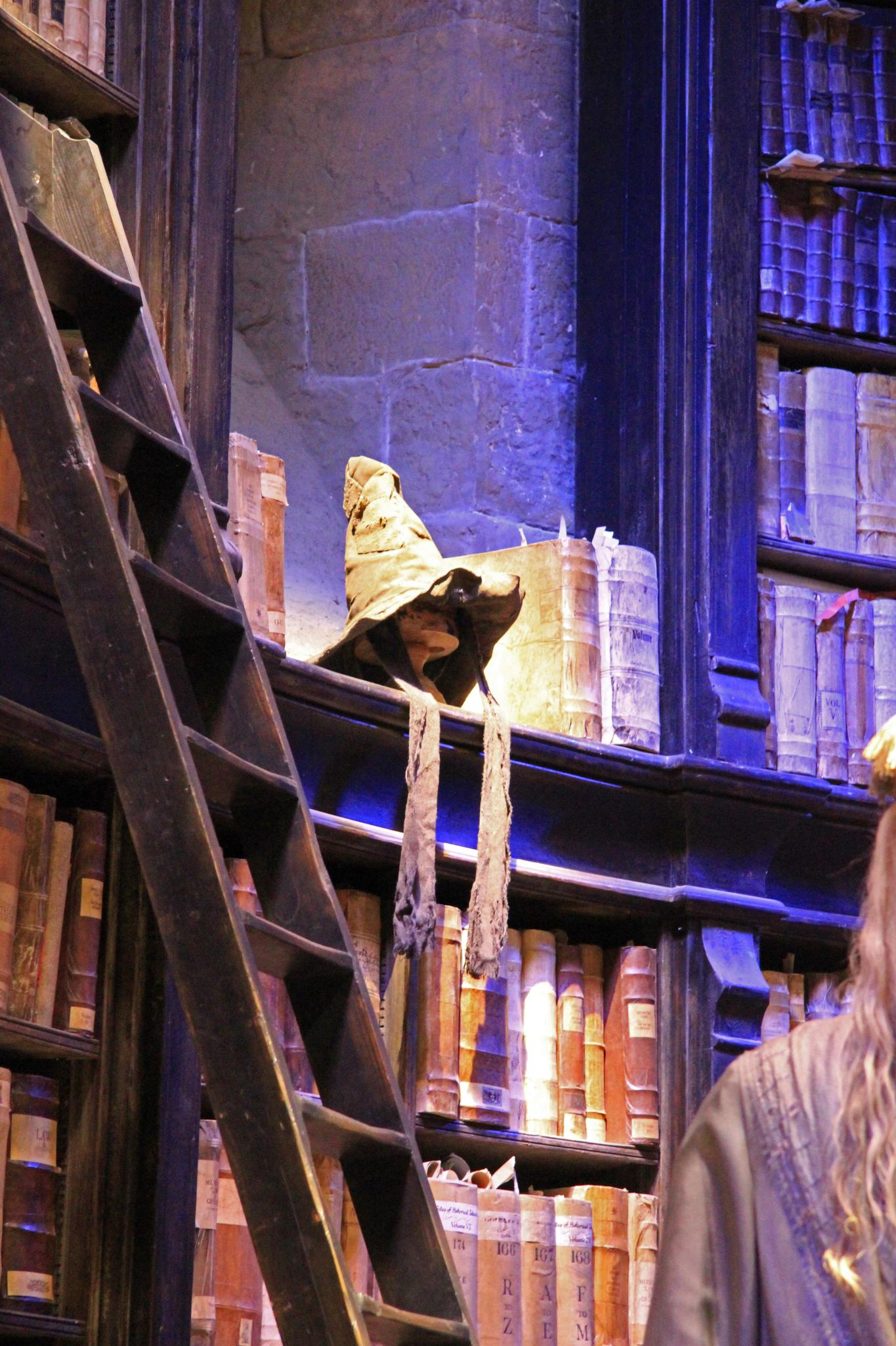 Warner Bros. Studio Tour London: The Making of Harry Potter.